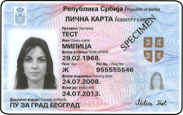 Obverse of Serbian national ID card front.